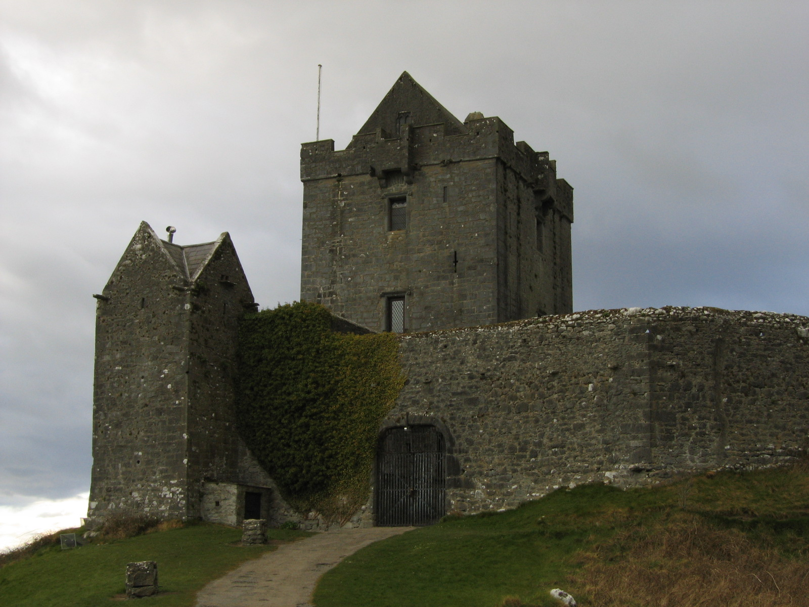 Dunguaire Castle, County Galway, Republic of Ireland.